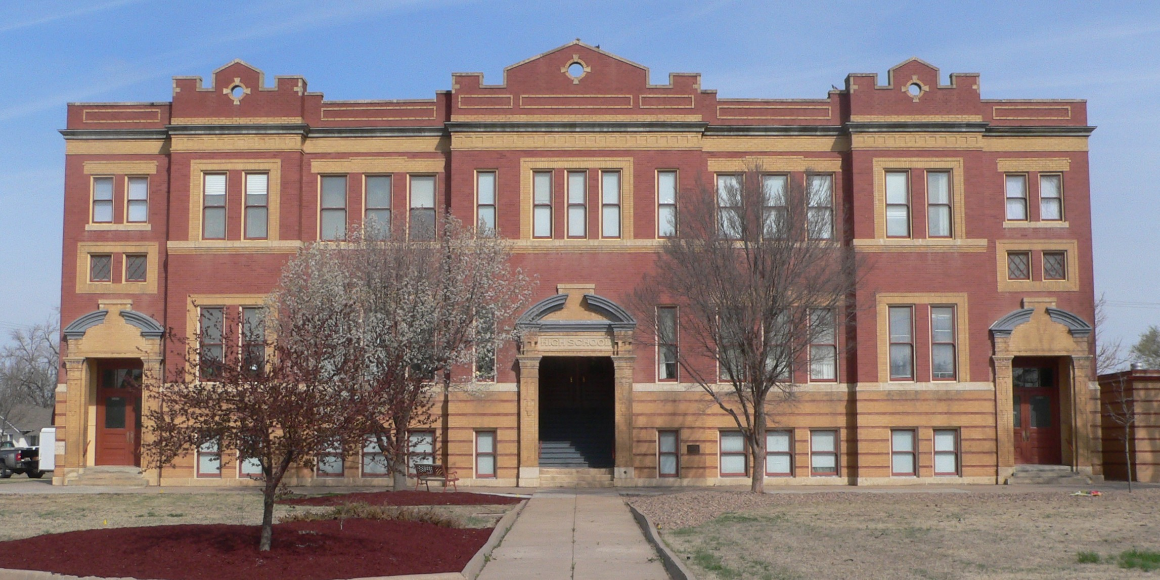 Sabine House, formerly Sabine Hall, at 201 Buffalo Jones Avenue in Garden City, Kansas; seen from the southeast.